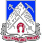 Regimental Distinctive Unit Insignia of the US Army 87th Infantry Regiment Source